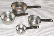 Measuring Cups